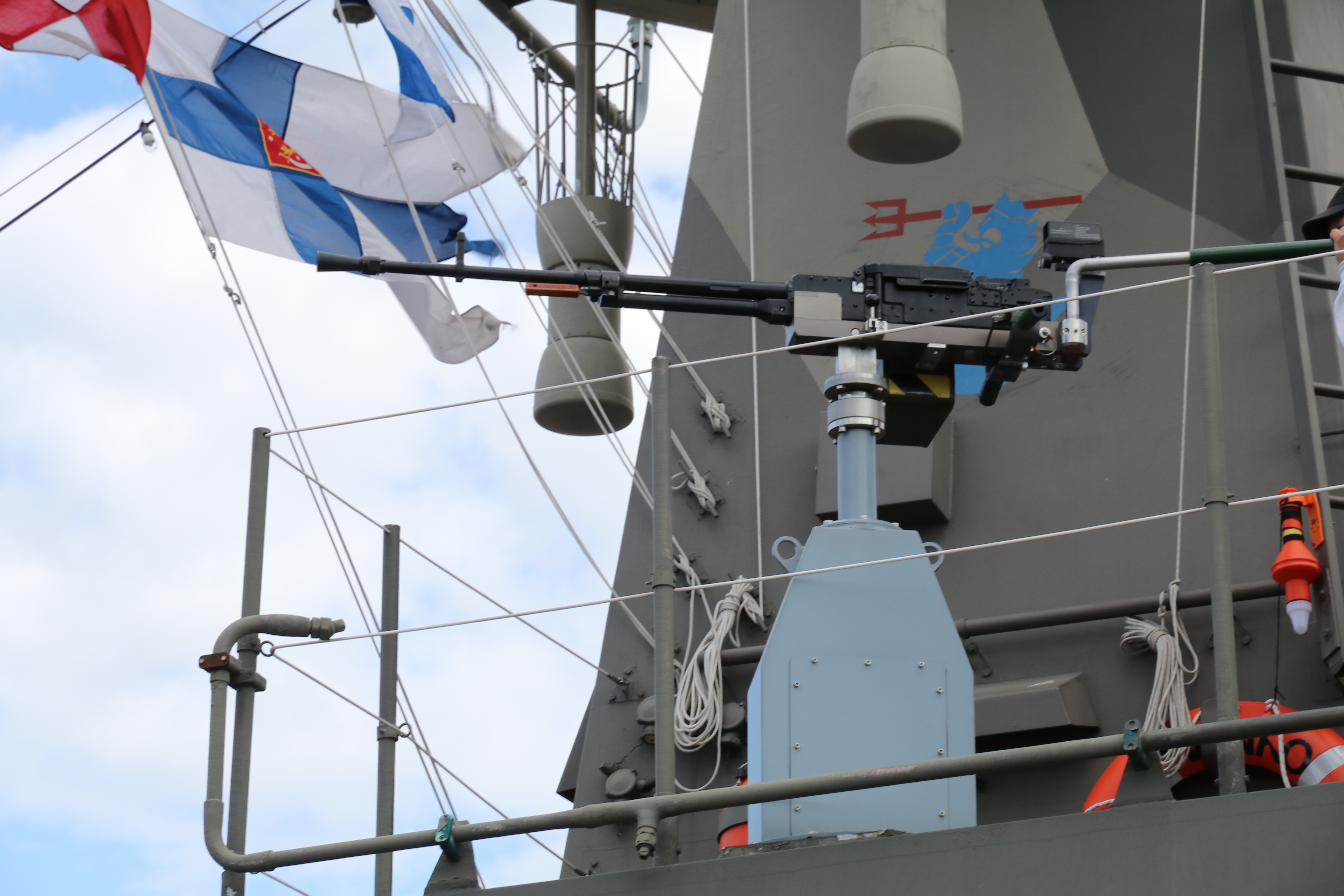 Finnish navy missile boat Hanko (62). 12.7 mm NSV machine gun. Photographed in 2016 Finnish defence forces flag day equipment exhibition in Turku Forum Marinum.